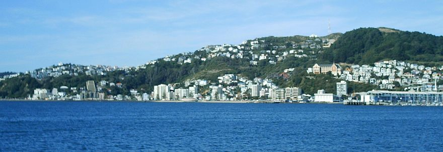 Photo of Oriental Bay, Wellington, New Zealand